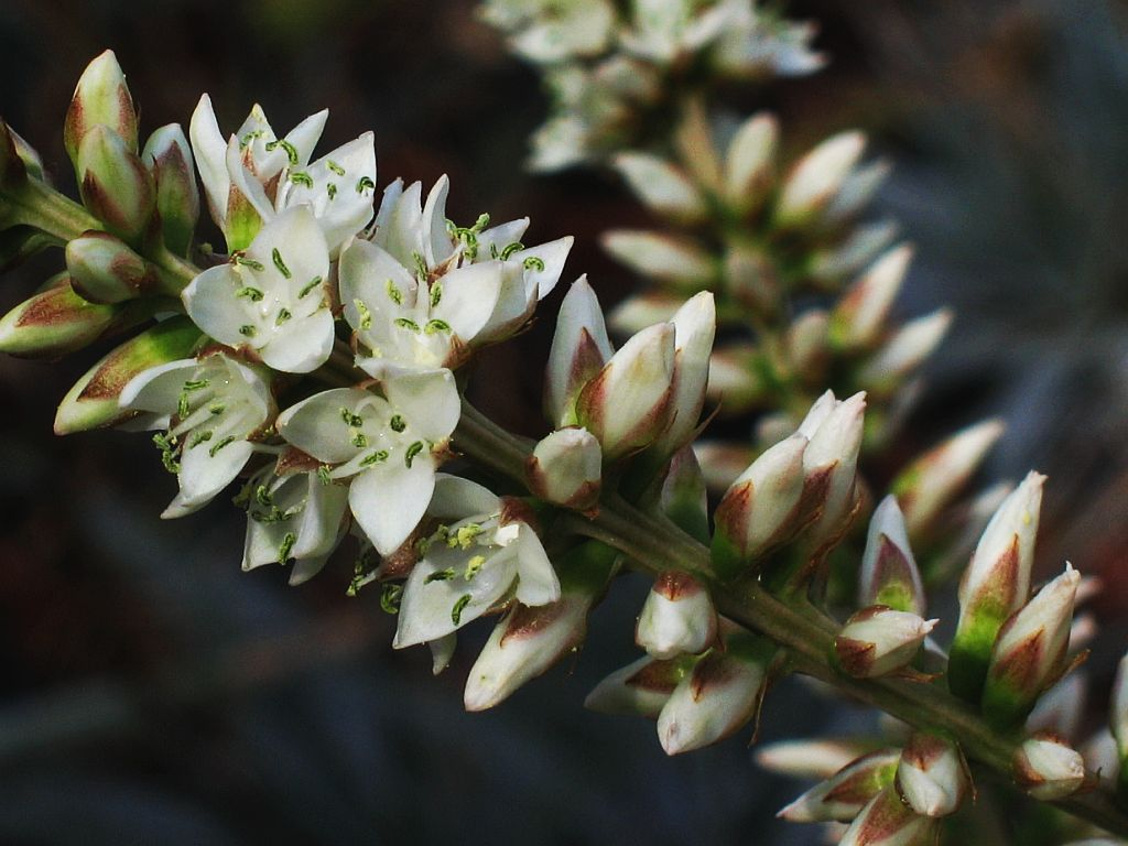 Hechtia guatemalensis in cultivation at the Botanical Garden of Heidelberg, Germany.